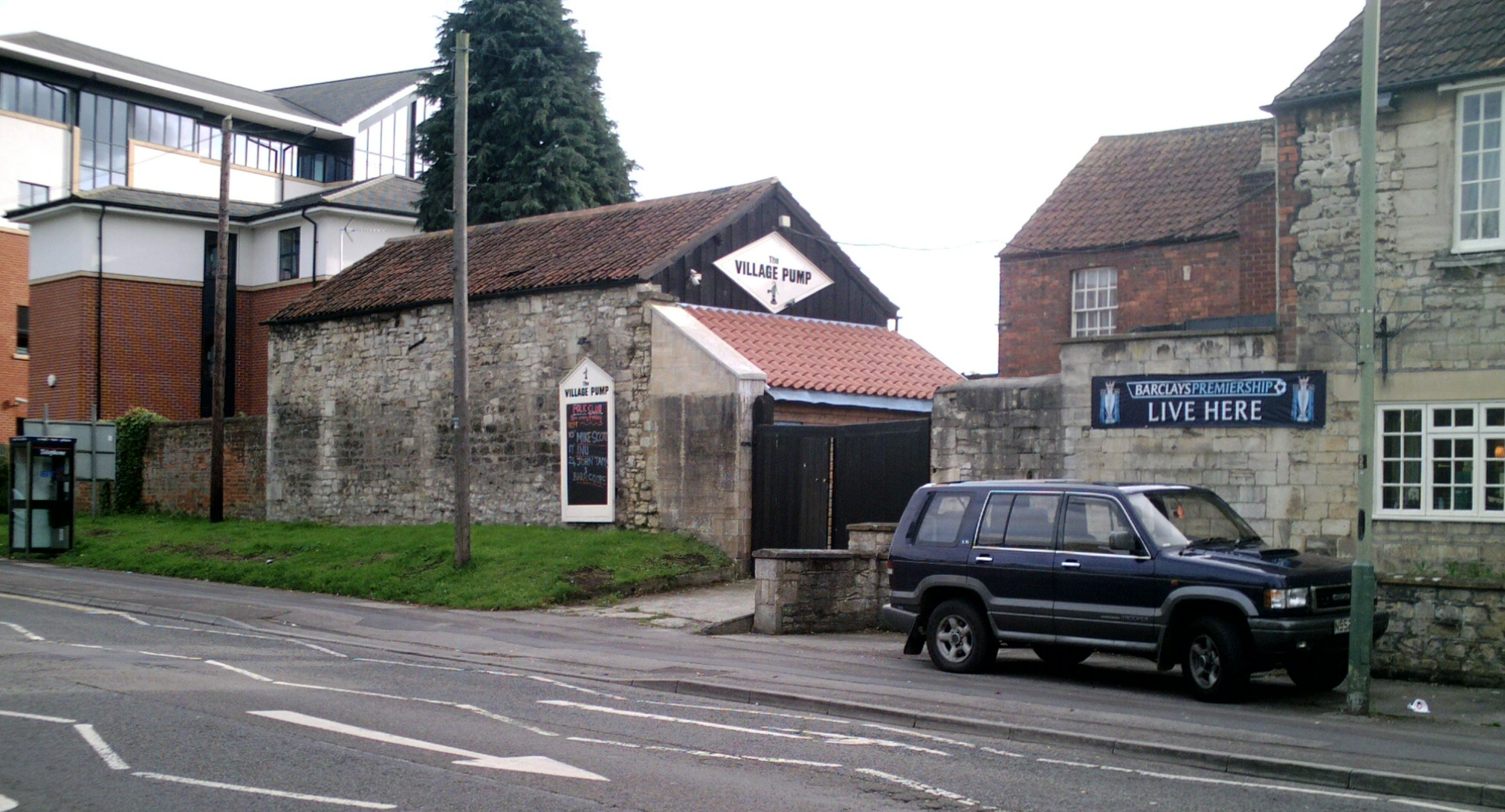 Original (and current) location of the Village Pump folk club, Trowbridge, Wilts.